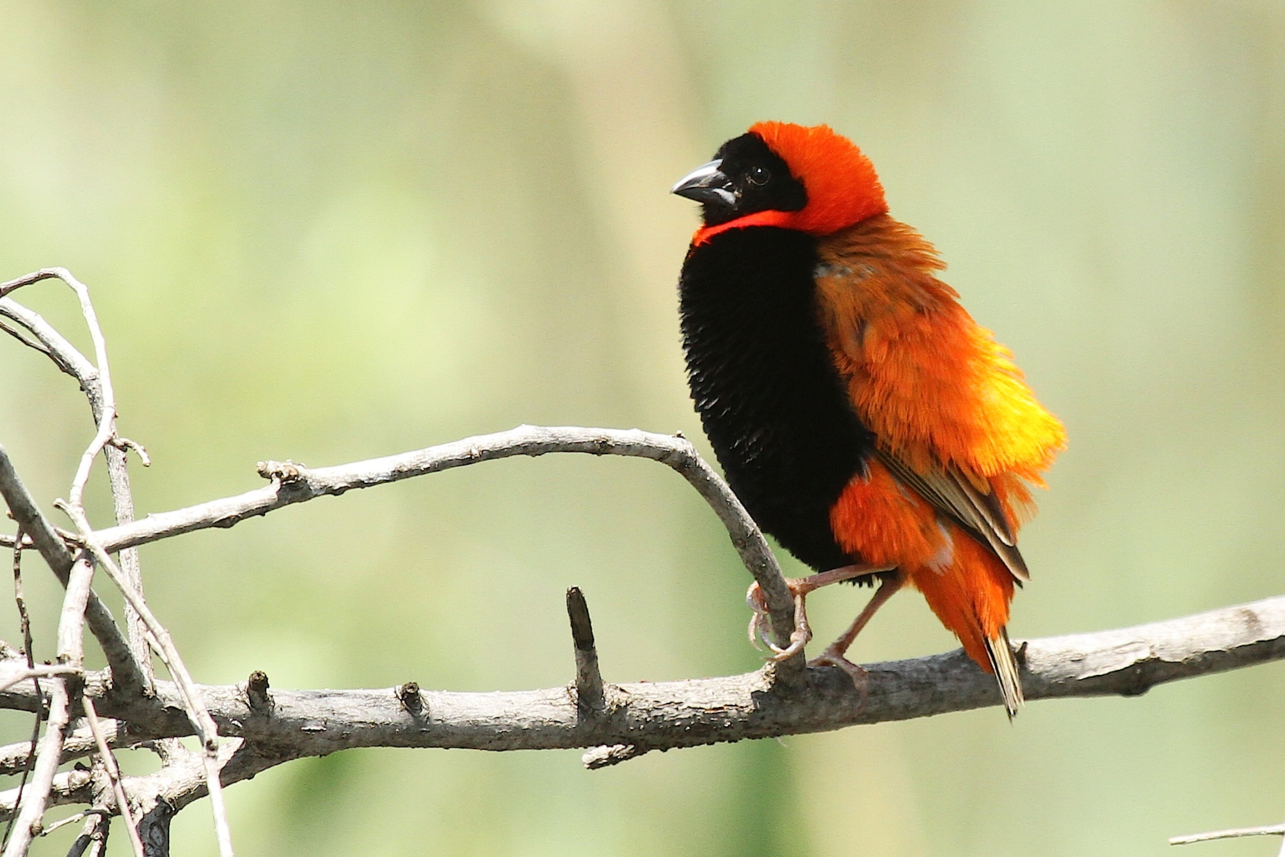 Austin Roberts Bird Sanctuary, New Muckleneuk, Pretoria This media shows a South African Protected Site with SAHRA file reference 9/2/258/0035.